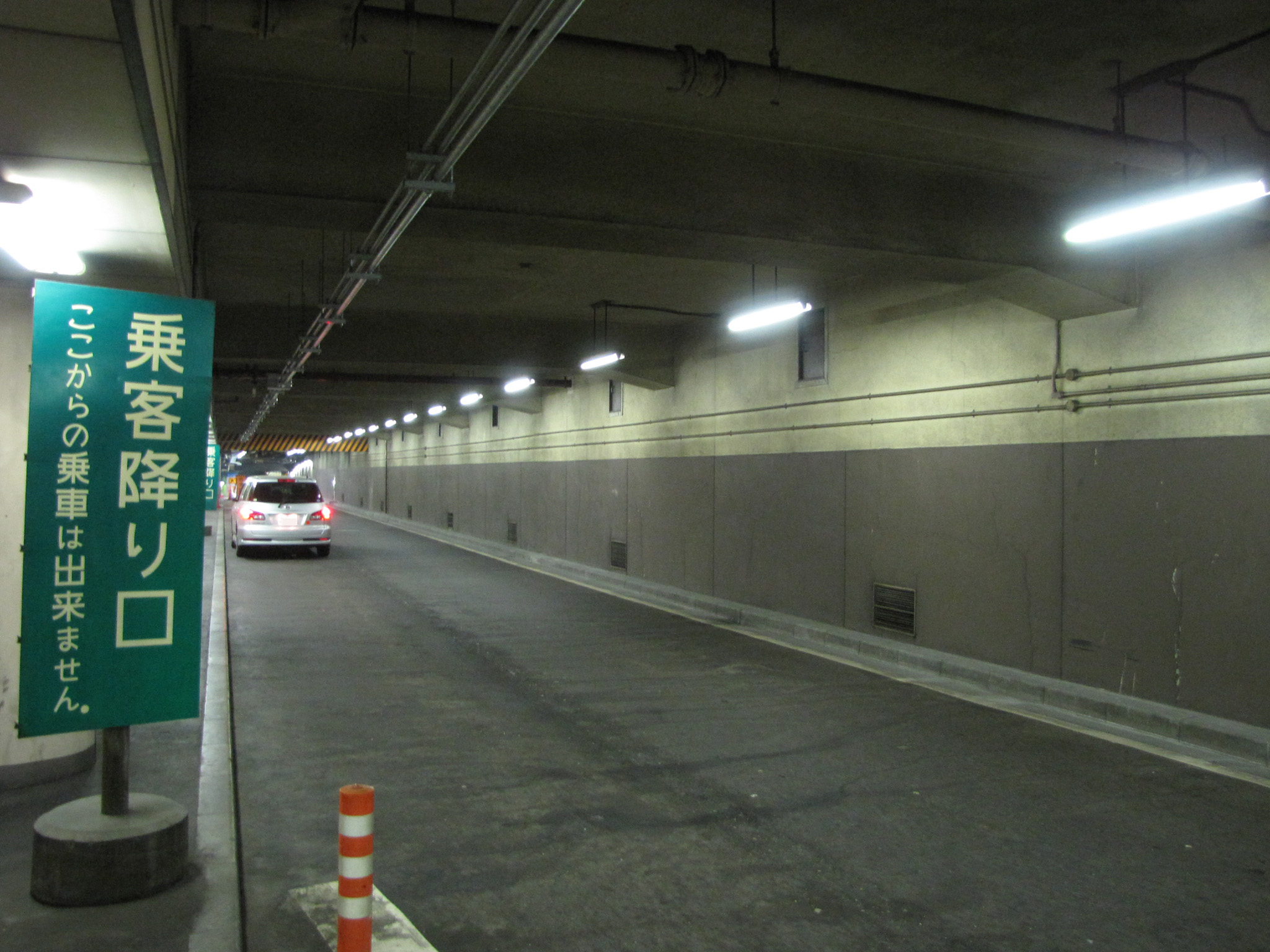 (Japan)MetropolitanExpressway Yaesu passenger way out spot